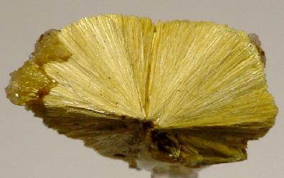 Tsumcorite Locality: Tsumeb, Otjikoto (Oshikoto) Region, Namibia (Locality at ) Size: thumbnail, 1.2 x 1.2 x .7 cm Tsumcorite This is a beautiful and important specimen for the species, featuring exceptionally well-developed crystals of Tsumcorite that are up to 6 mm in length! The cluster is huge, for this style of tsumcorite. The crystals exhibit a color and definition on a scale that is rarely seen for the species. Not only do you have the spray in the middle of the specimen, but the orange-tan matrix on the left is really the scalloped surface of a radial cluster of acicular crystals as well. The whole ball on the left side, is a single radiating hemisphere of the stuff...with a spray of more freestanding crystals on what i call the front of the piece, perched against the upper tips of the spherical aggregate. Considering the rarity of this species, this is a remarkable specimen! Purchased from the Zweibels in 1976